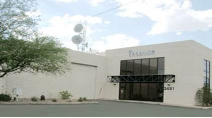 Paragon Headquarters, Tucson, AZ